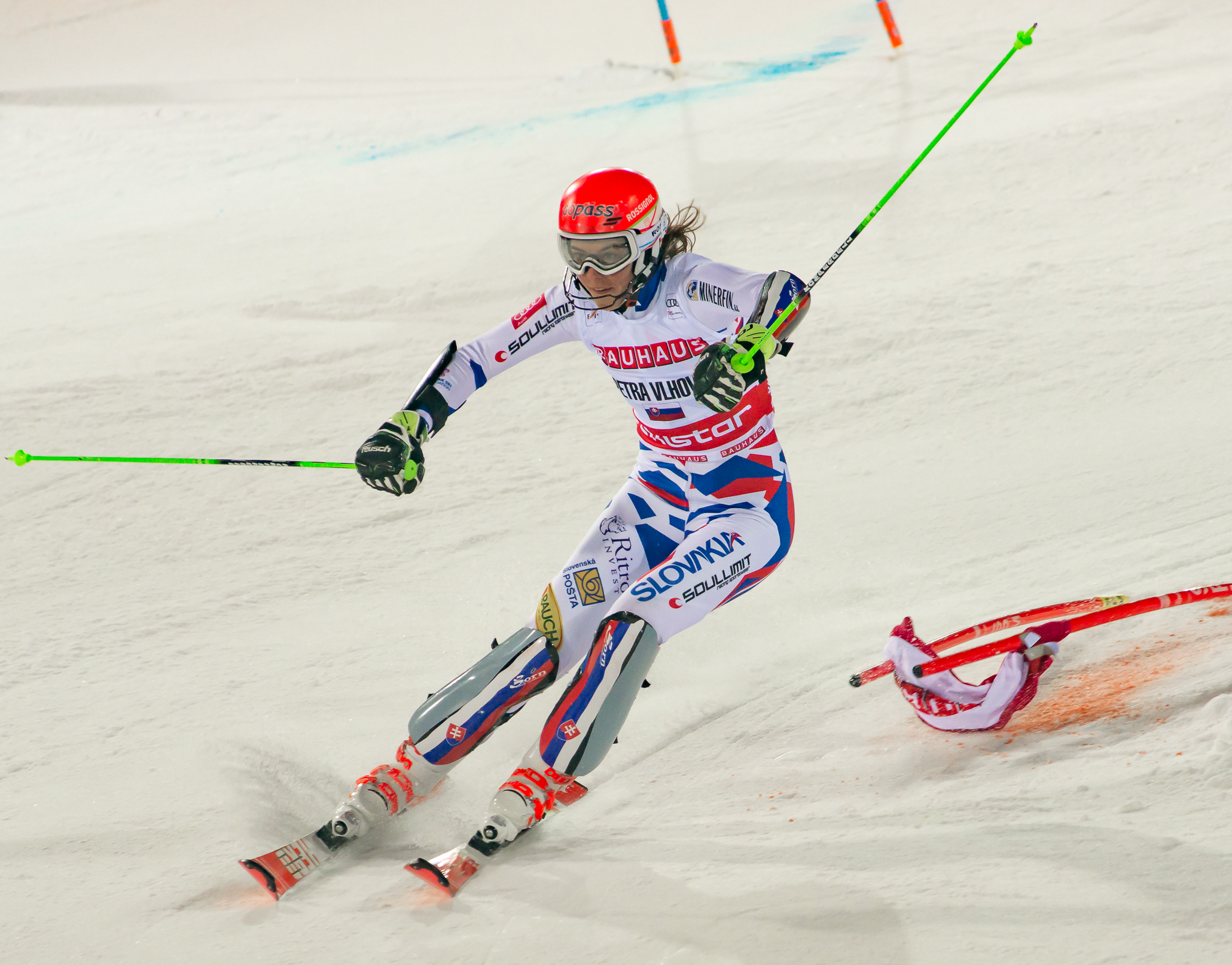 Petra Vlhova in action Photo by Roland Osbeck